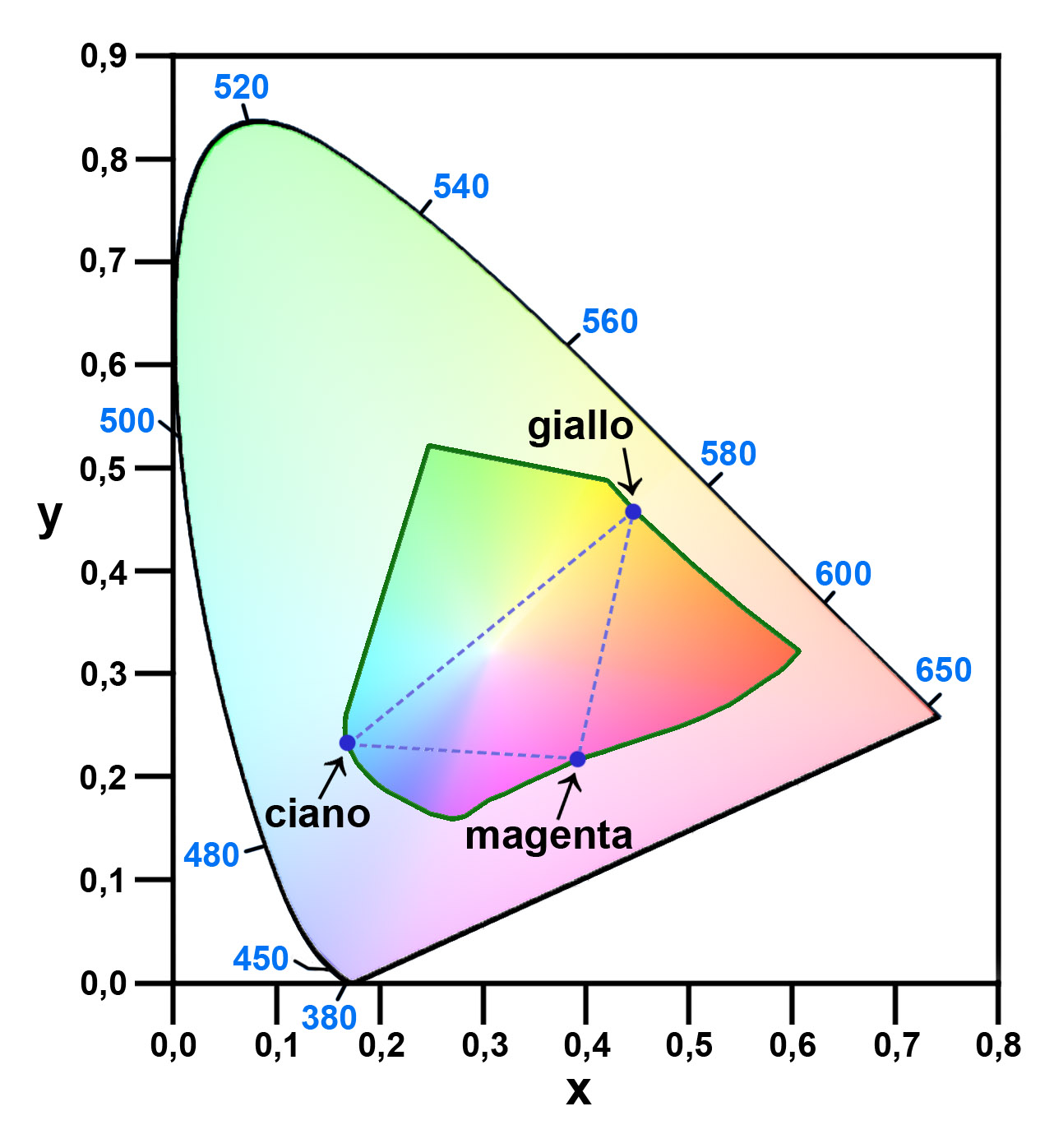 Gamut of yellow, magenta and cyan print inks when used as subtractive primaries (area delimited by the white curve) and additive primaries (triangle).